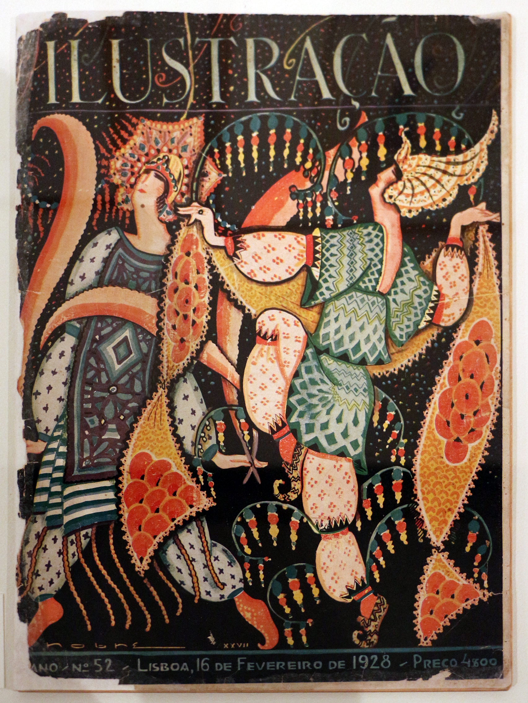 Calouste Gulbenkian Museum